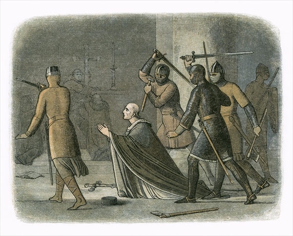 Thomas Becket is murdered by Reginald Fitzurse, Hugh de Morville, William de Tracy, and Richard le Breton. This was published in: Doyle, James William Edmund (1864) "Henry II" in A Chronicle of England: B.C. 55 – A.D. 1485, London: Longman, Green, Longman, Roberts & Green, pp. p. 173 Retrieved on 12 November 2010.